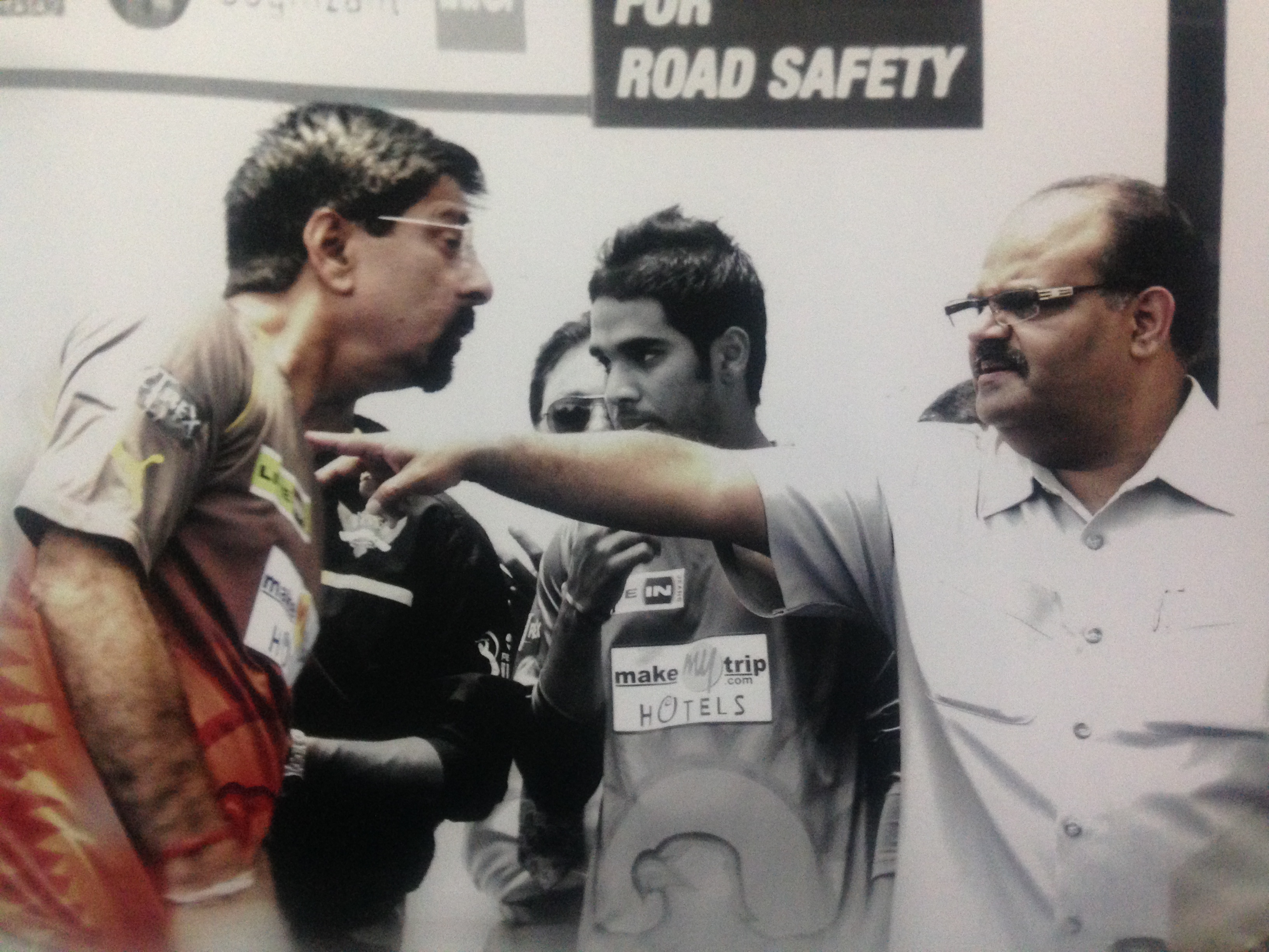 Dr. K. Hari Prasad with Kris Srikanth